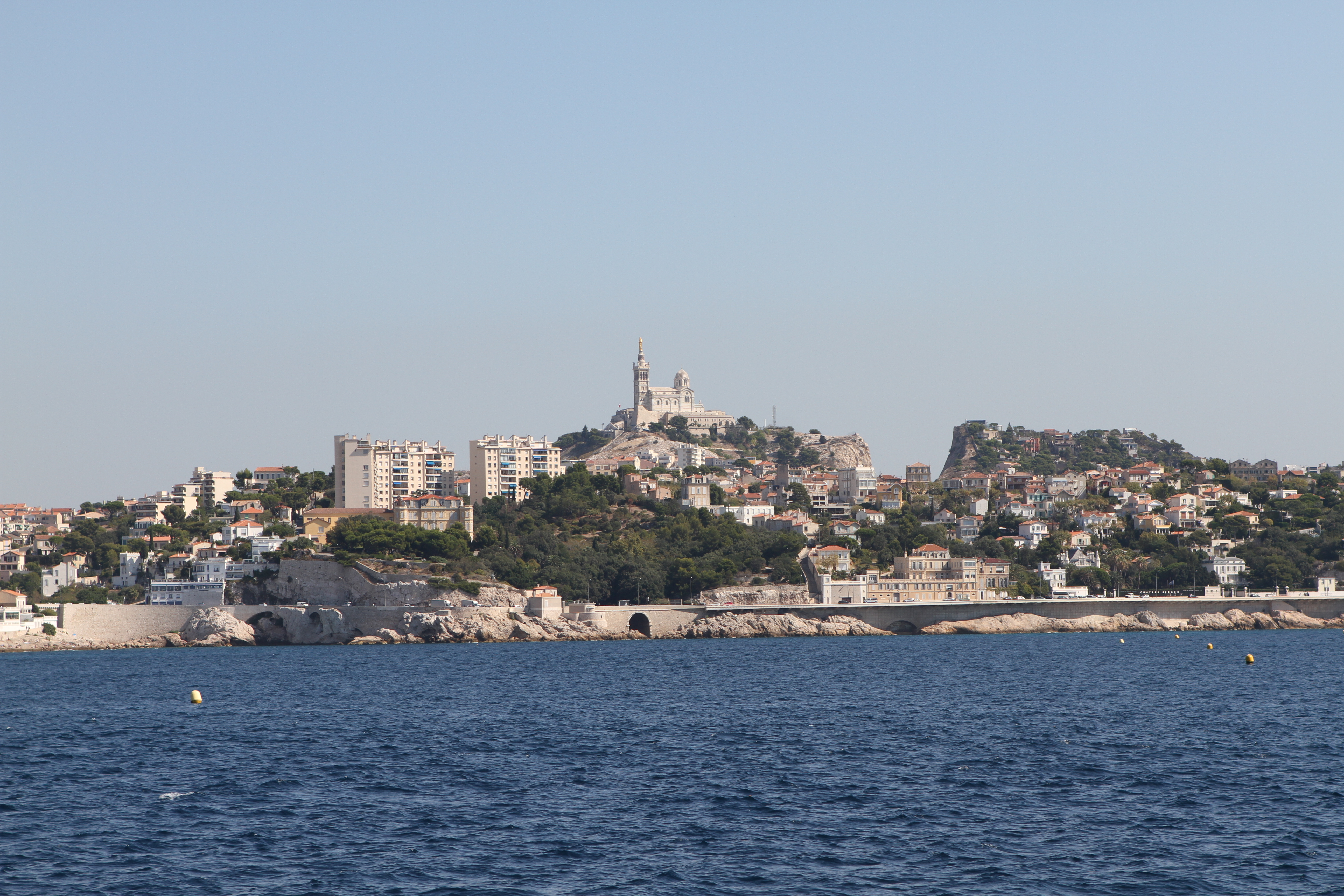 The city of Marseille view from a boat (Bouches-du-Rhône, France)